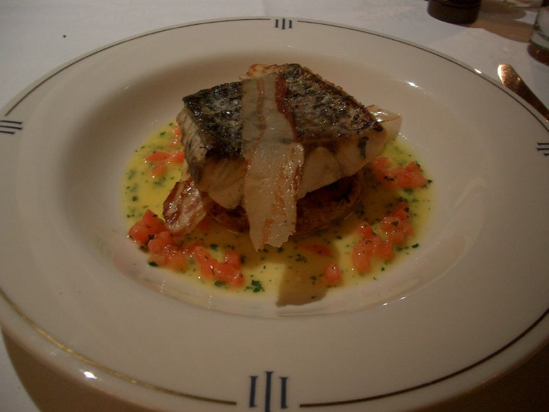 Roasted Barramundi fillet, fennel and crustacean cake, crisp pancetta, with a verjuice reduction. A succulent piece of fresh Barramundi with a crispy skin. The fish was so juicy, you might have thought it was steamed or poached. The tomatos in the verjuice reduction provided a nice tang to the sweet flesh of the fish. Mietta's review of One Eleven Spring Street, Windsor Hotel . 111 Spring Street